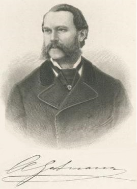 Lithography and signature of Adolph Gutmann